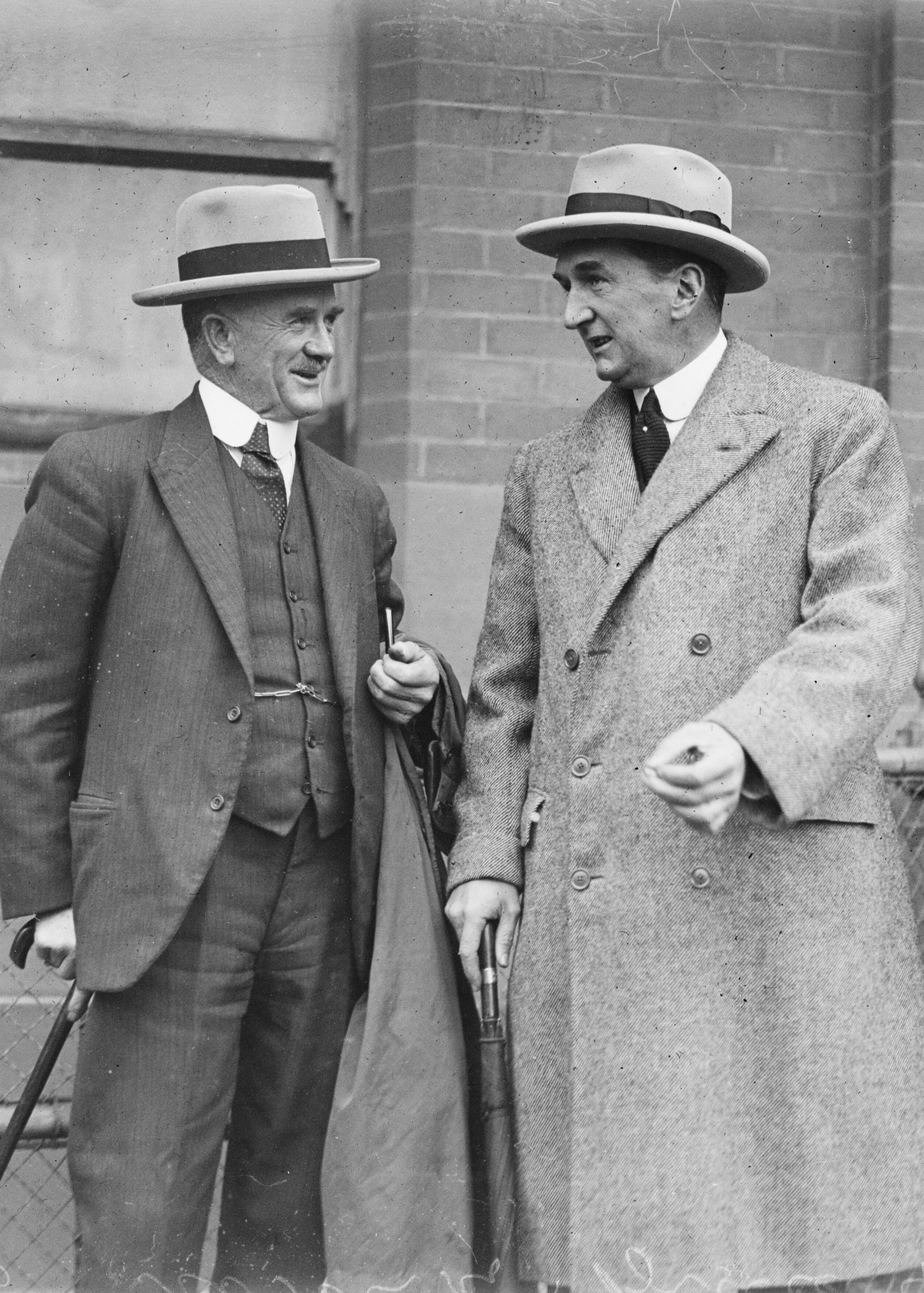 Australian politicians William Gerrand Gibson and Stanley Melbourne Bruce